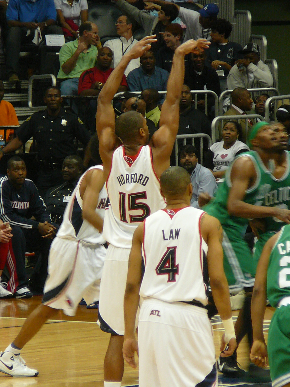 User:Chrisjnelson agreed to license this image of Al_Horford_Free_Throw.jpg under a free attribution license. Any use of this image must be attributed; this means that Photo by :en::en:User:Chrisjnelson|Chris Nelson should be in the picture caption.